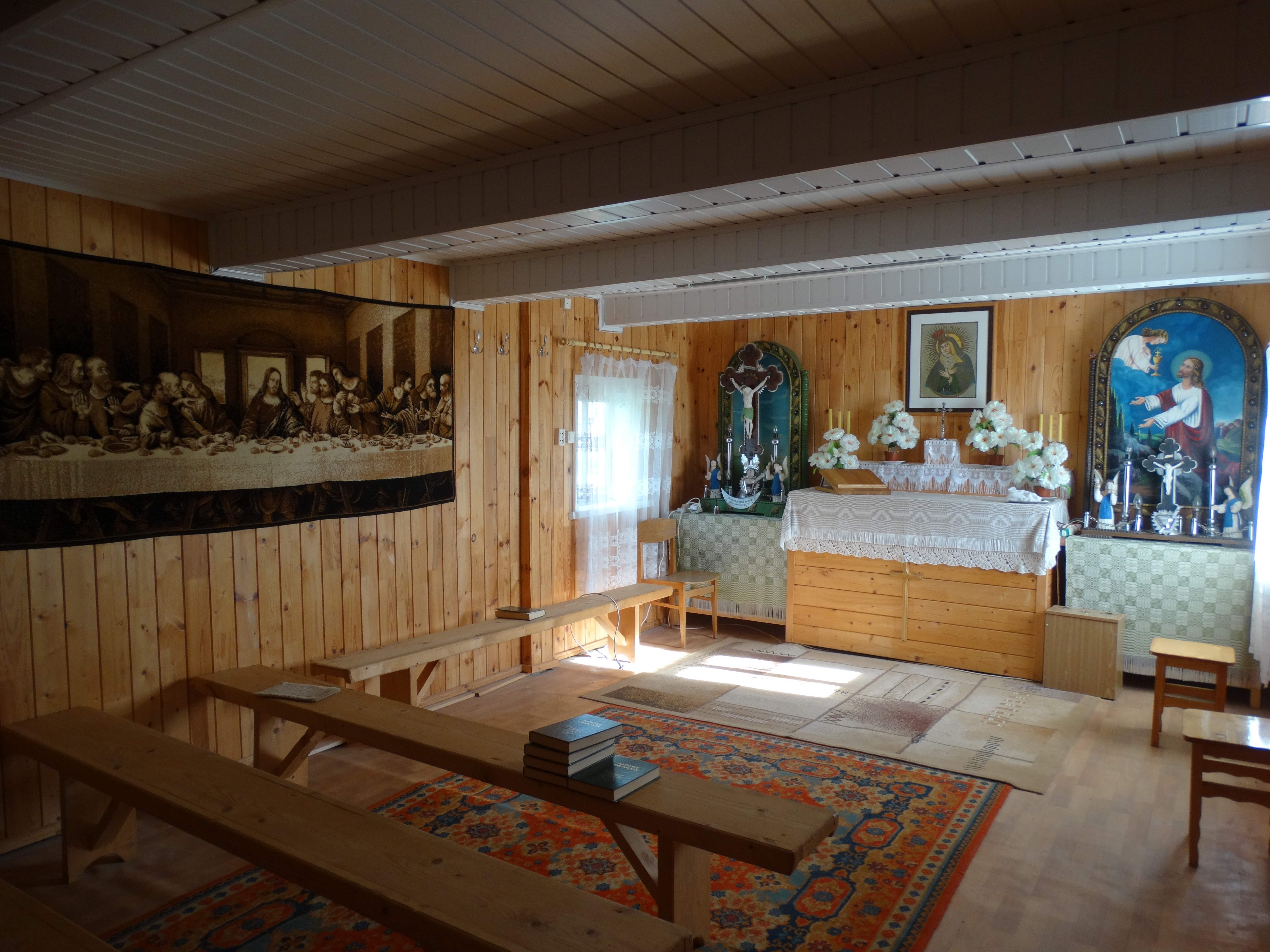 Vilkiškės chapel, Kaišiadorys District, Lithuania